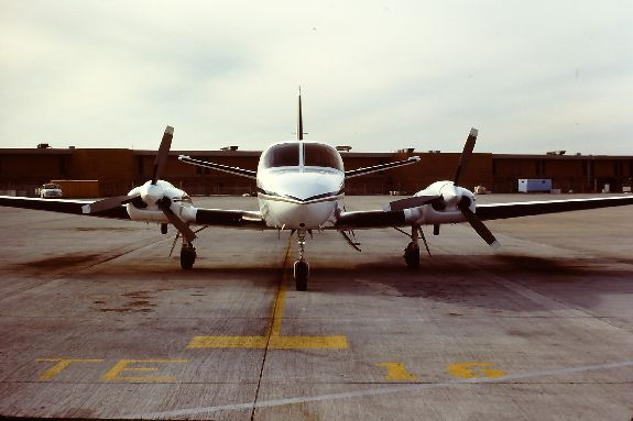 Manufacturer: Cessna Designation: 404 Titan Ambassador Airline: Imperial Airlines Serial Number: N88671